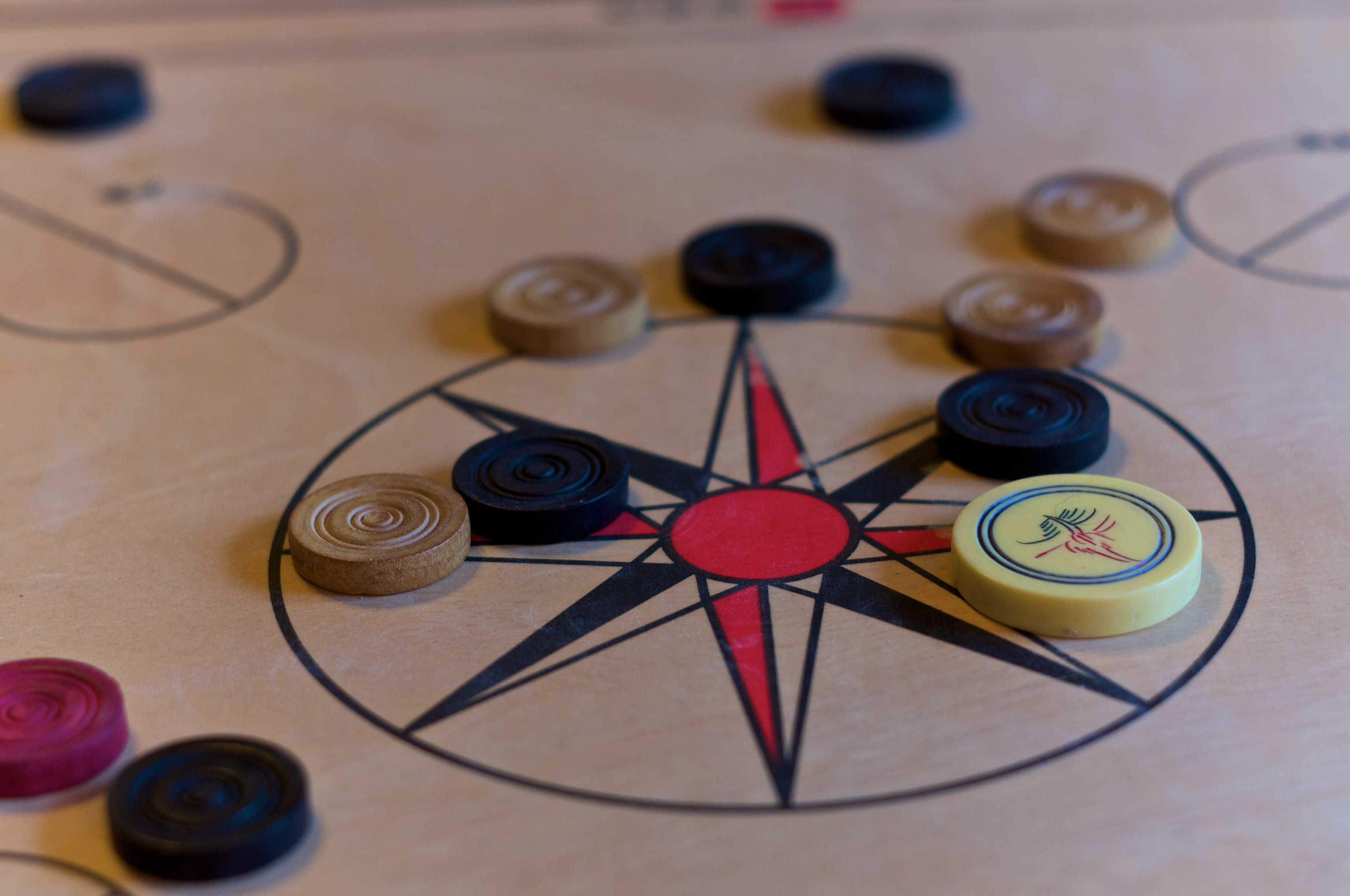 Carrom, mid position. Free license